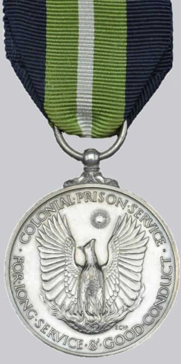 British long service medal for 18 years in the prison service of British colonies and overseas territories.